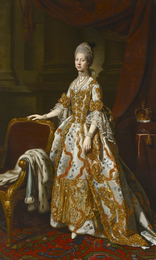 Portrait of the British queen Charlotte of Mecklenburg-Strelitz